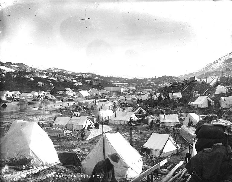 Shows tent settlement and One Mile River in the background, boat building in the foreground . Caption on image: "Lake Bennett, B.C." Klondike Gold Rush. Subjects (LCTGM): Cities & towns--British Columbia; Tents--British Columbia--Bennett Subjects (LCSH): One Mile River (B.C.); Bennett, Lake (B.C.); Bennett (B.C.)